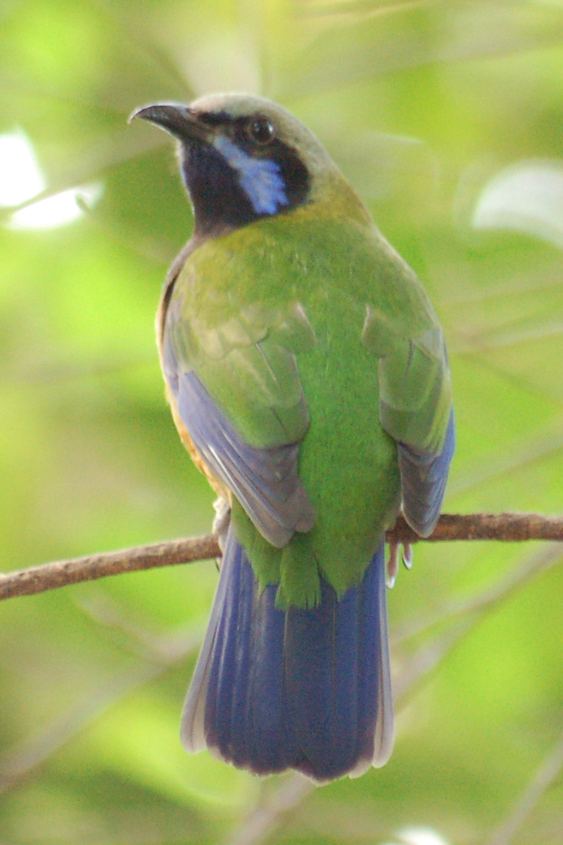 A photograph of an Orange-Bellied Leafbirden (Chloropsis hardwickii en ). Photo taken at the National Aviary.